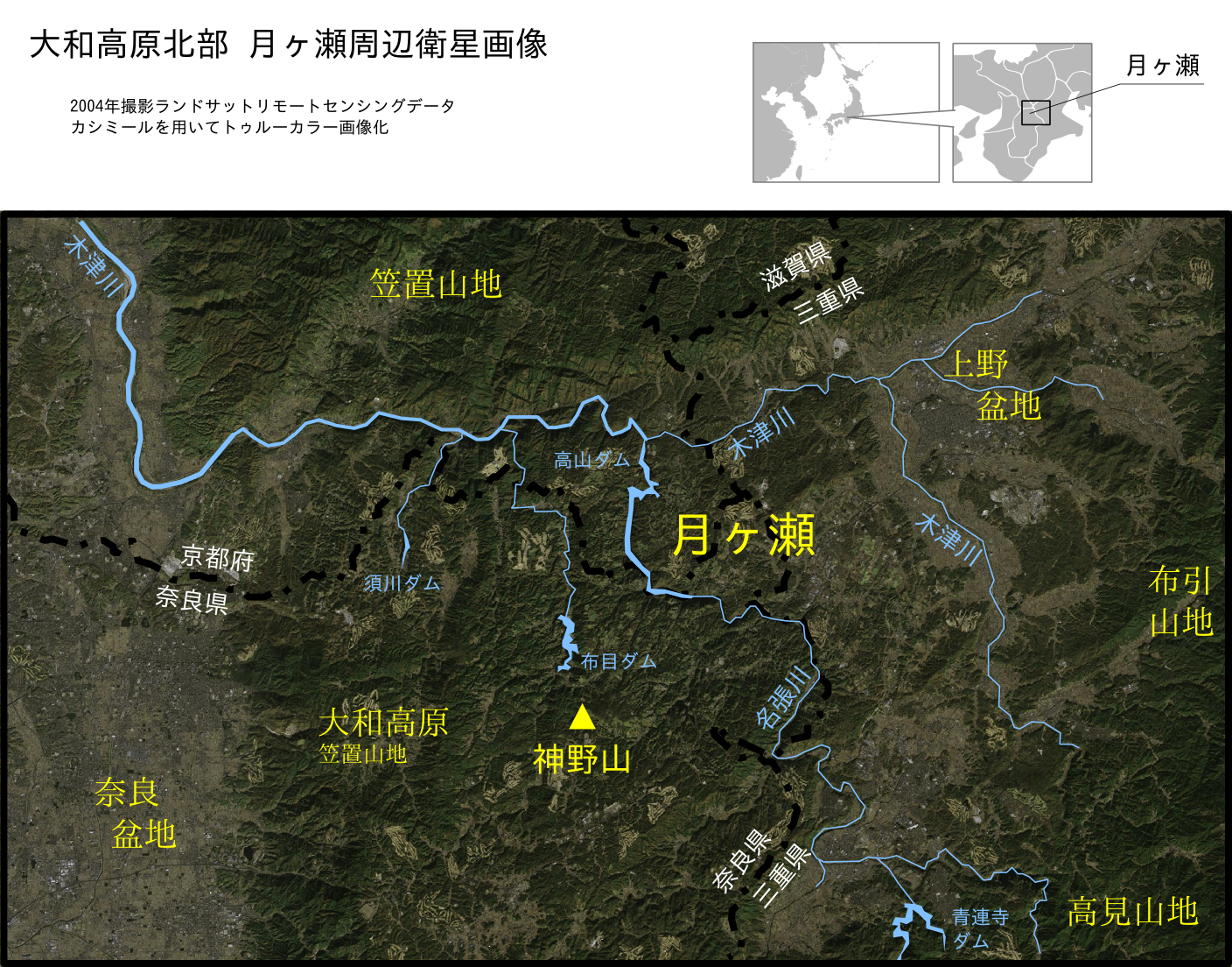 Satellite image of the area around Tsukigase on North Yamato Plateau in Japan